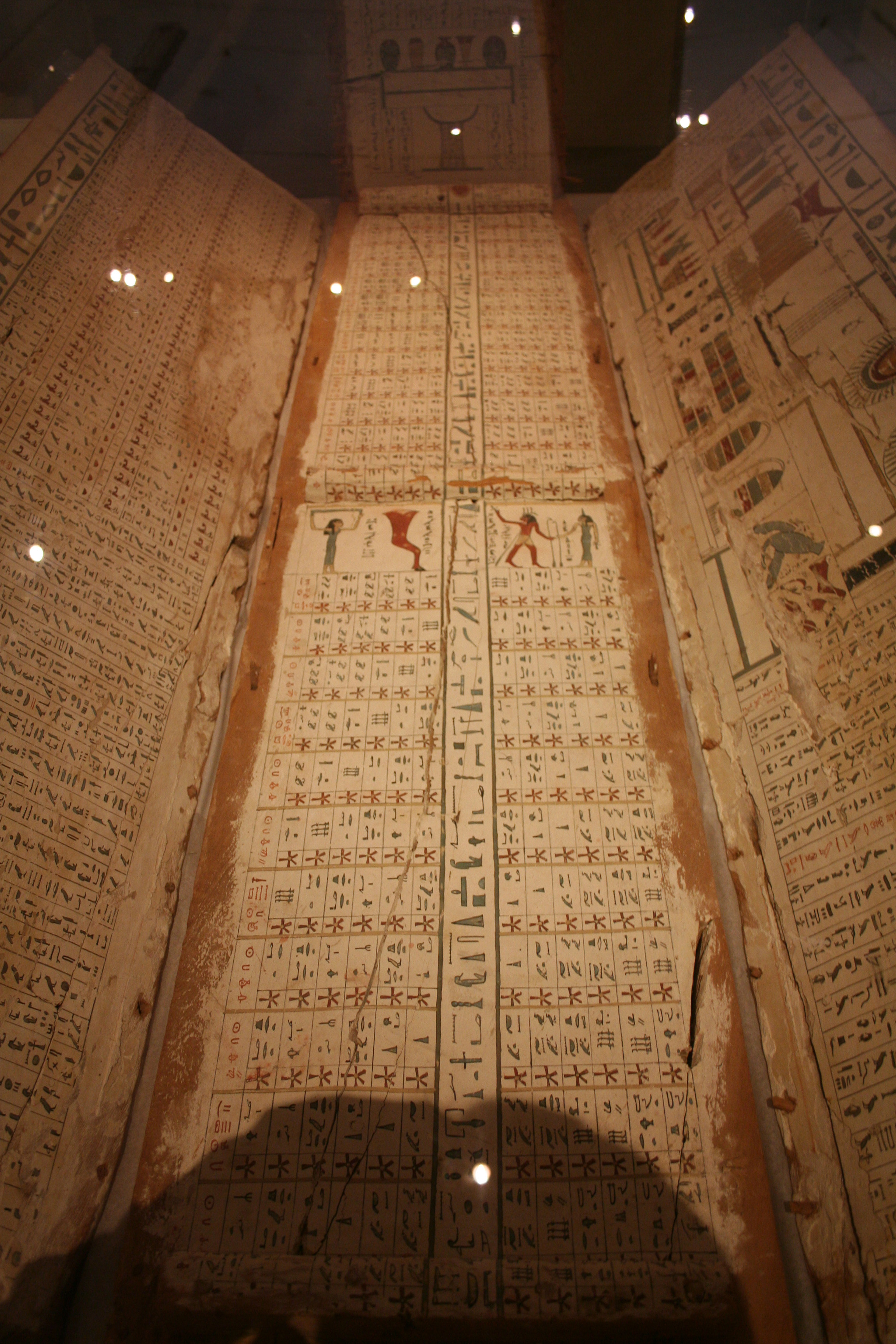 'Diagonal star tables', or 'star clocks' from wooden coffin lids; 11th Dynasty, from Asyut, Egypt --- Roemer- und Pelizaeus-Museum, Hildesheim